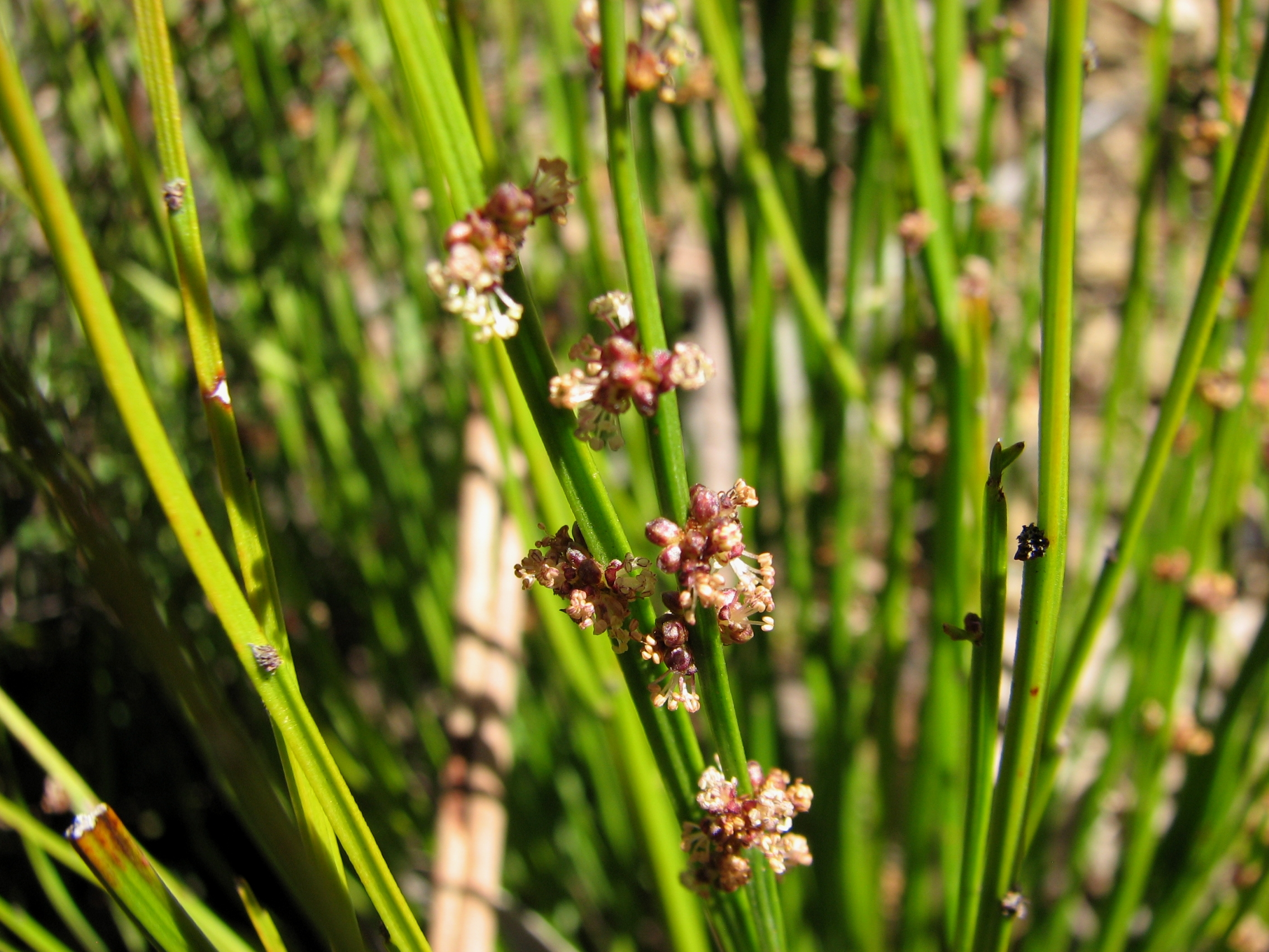 Amperea xiphoclada, Fainting Range, East Gippsland, Victoria, Australia